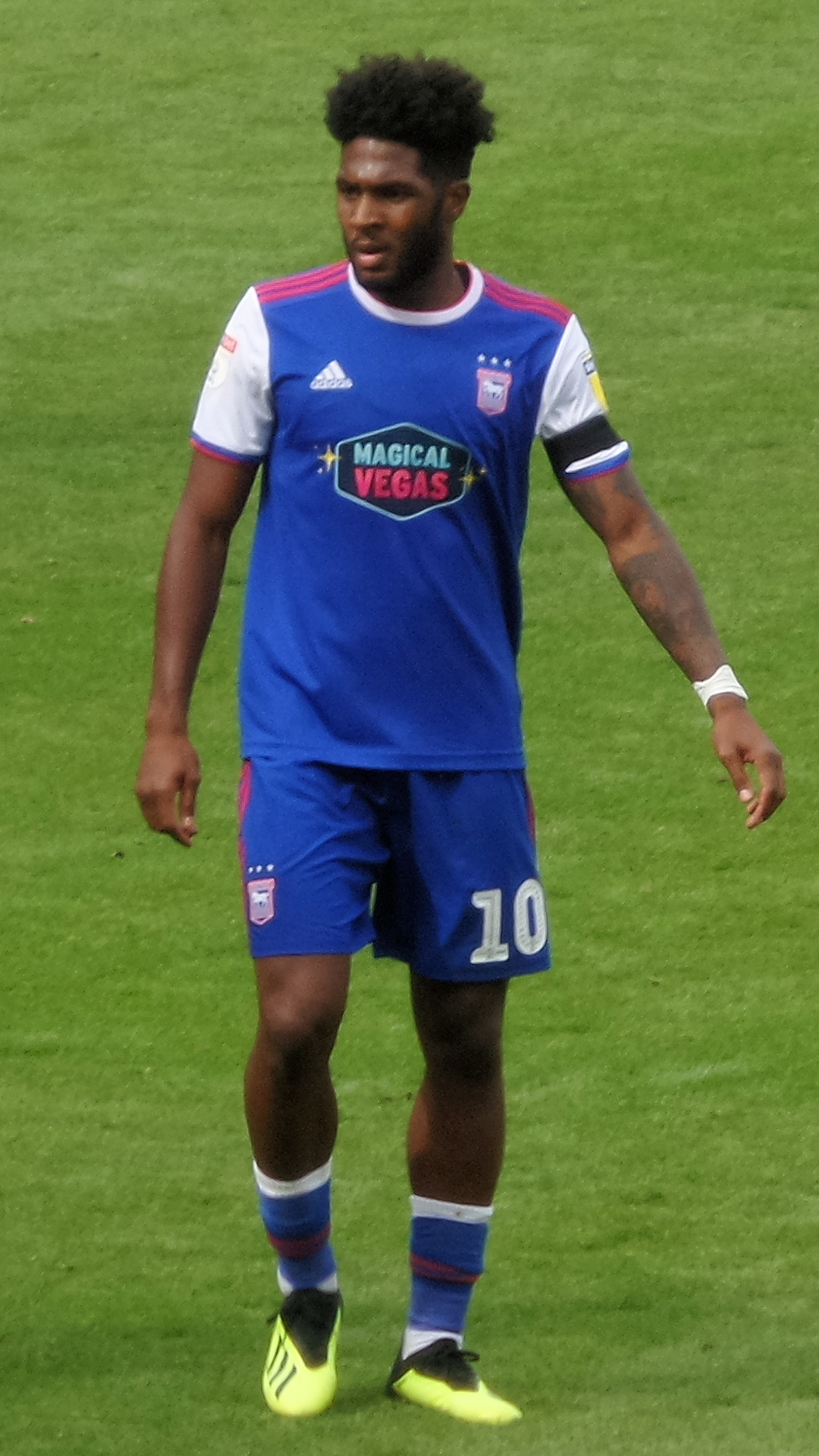 Ellis Harrison playing for Ipswich Town at Rotherham United on 11 August 2018